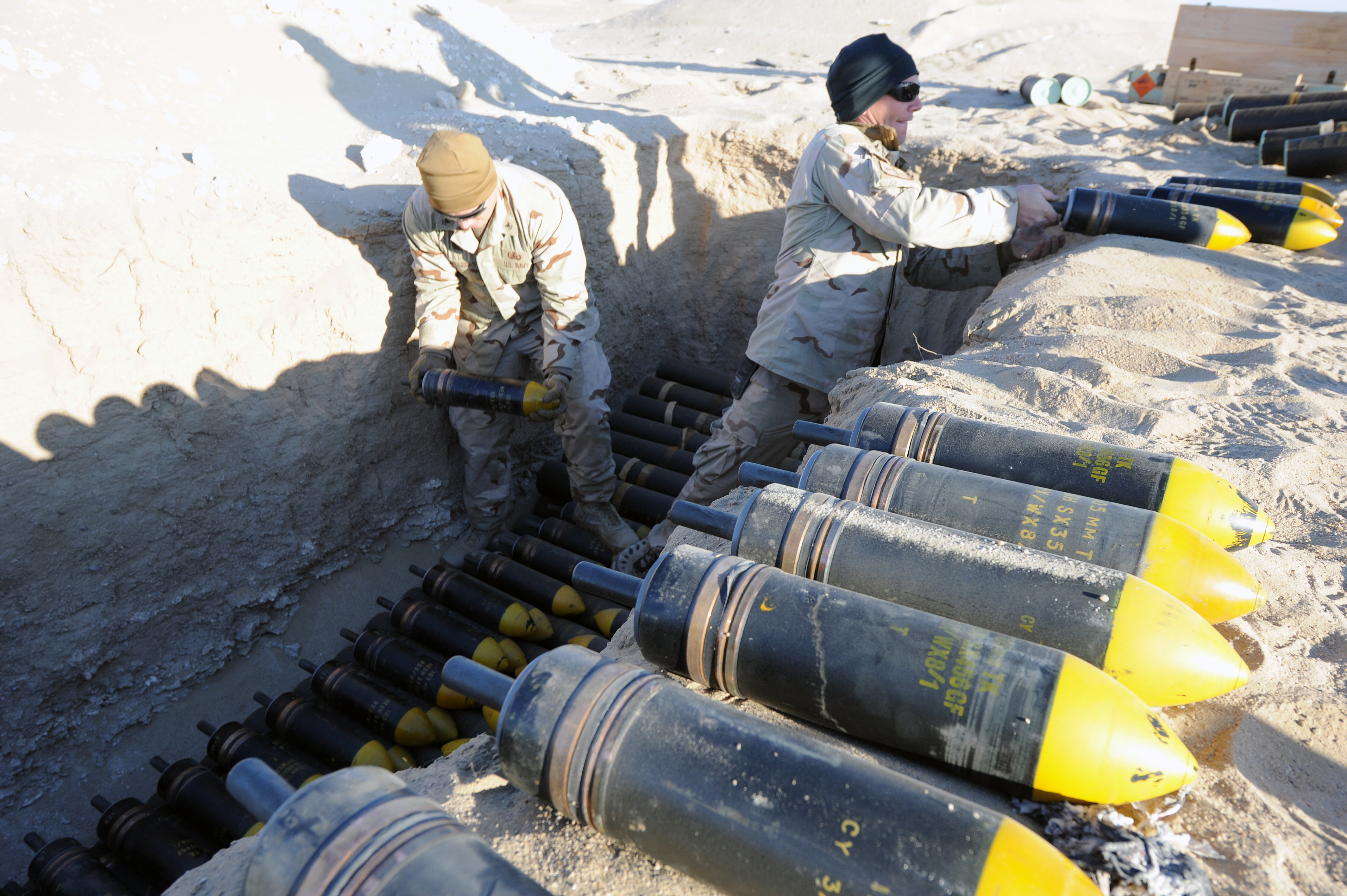 CAMP BUEHRING, Kuwait (Dec. 14, 2011) Explosive Ordnance Disposal Technician 2nd Class Reuban Villegas, left, and Explosive Ordnance Disposal Technician 1st Class Mike Dillon, both assigned to Commander, Task Group (CTG) 56.1, build a 1,500-pound munitions disposal shot during demolition operations supervisor training. CTG 56.1 provides mine countermeasure, explosive ordnance disposal, salvage diving, counterterrorism and force protection for the U.S. 5th Fleet area of responsibility. (U.S. Navy photo by Chief Mass Communication Specialist Kathryn Whittenberger/Released)